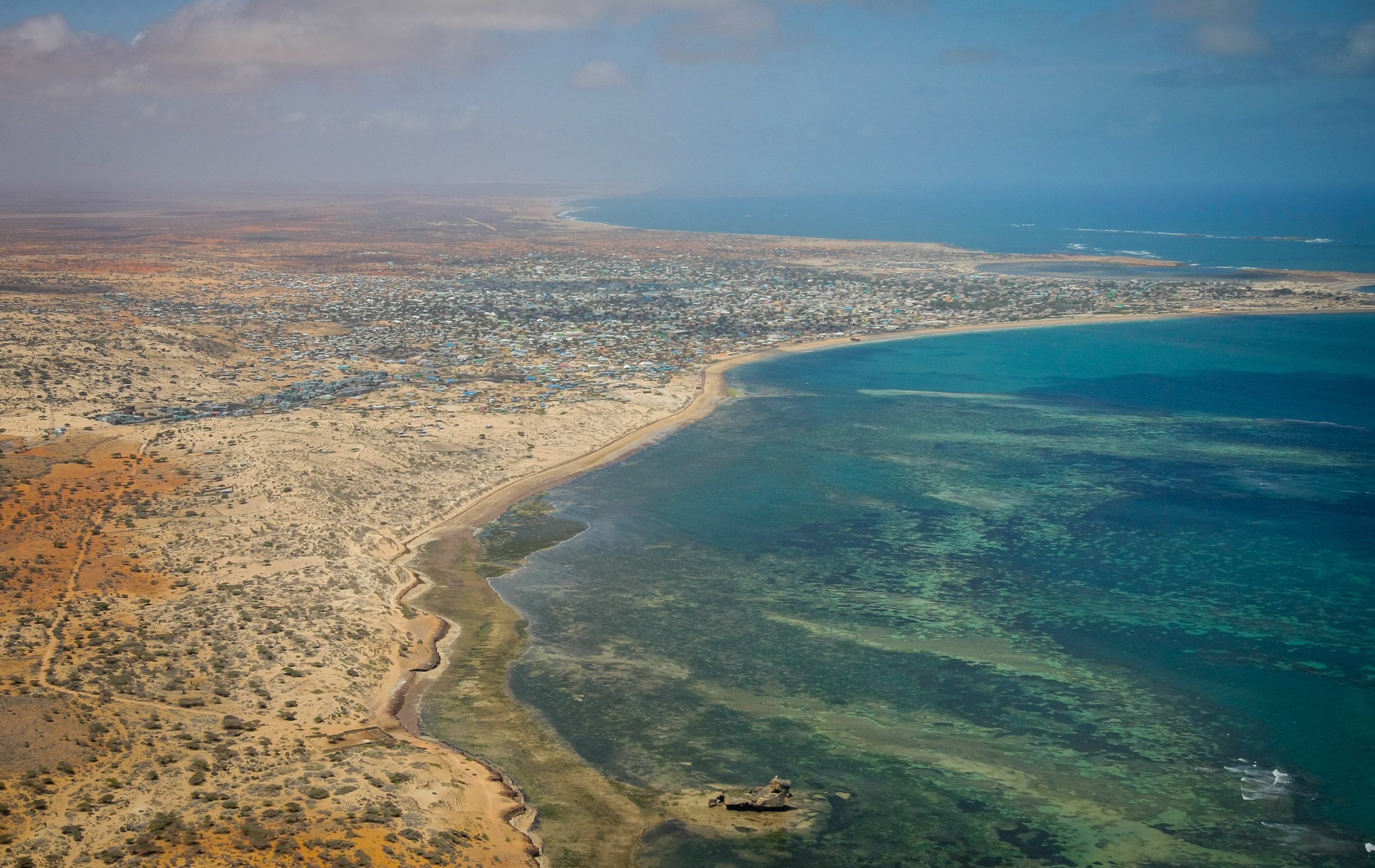 Aerial view of the southern Somali port city of Kismayo, 04 October 2012. The last bastion of the once feared Al-Qaeda-affiliated extremist group Al Shabaab, Kismayo fell after troops of the Somali National Army (SNA) and the pro-government Ras Kimboni Brigade supported by the Kenyan Contigent of the African Union Mission in Somalia (AMISOM) entered the port city on 02 October following a two month operation across southern Somalia which saw the liberation of villages and centres along a distance of 120km from Afmadow to Kismayo. AU-UN IST PHOTO / STUART PRICE.